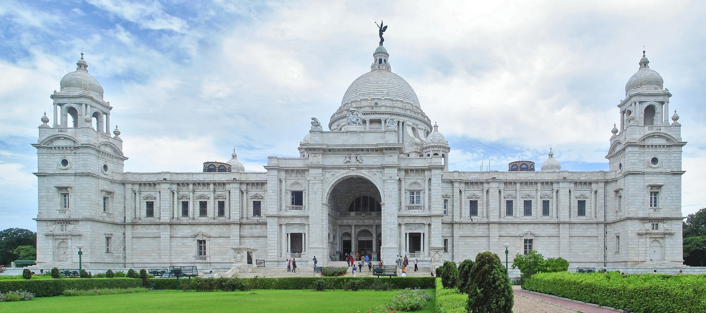 The north facade of the Victoria Memorial (Kolkata), India. The statue of the Angel of Victory is fixed atop the dome.